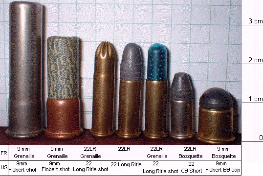 After a discussion with Lax, we came up with the English/American names for the cartridges: 9mm Flobert shot 9mm Flobert shot .22 Long Rifle shot .22 Long Rifle .22 Long Rifle shot .22 CB Short 9mm Flobert BB cap